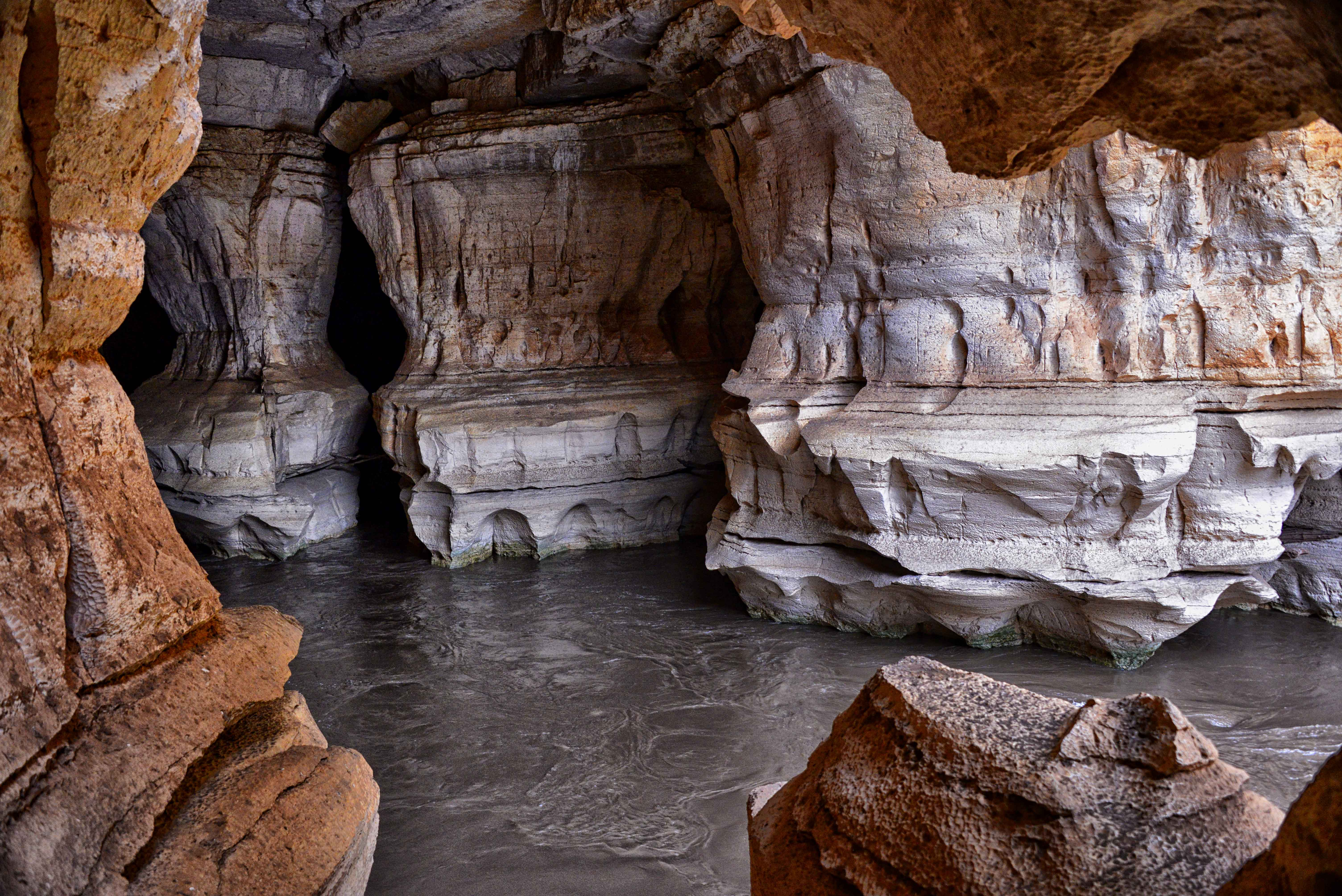 Underground River, Sof Omer Cave, Ethiopia